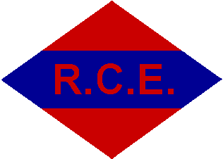 Formation patch used by Royal Canadian Engineers attached to the First Canadian Army during World War II.Formation patch used by Royal Canadian Engineers attached to the First Canadian Army during World War II. The patch was designed in c1942, and the crown copyright would have been owned by the Canadian Department of National Defence. The crown copyright expired 50 years later, in the early 1990s.